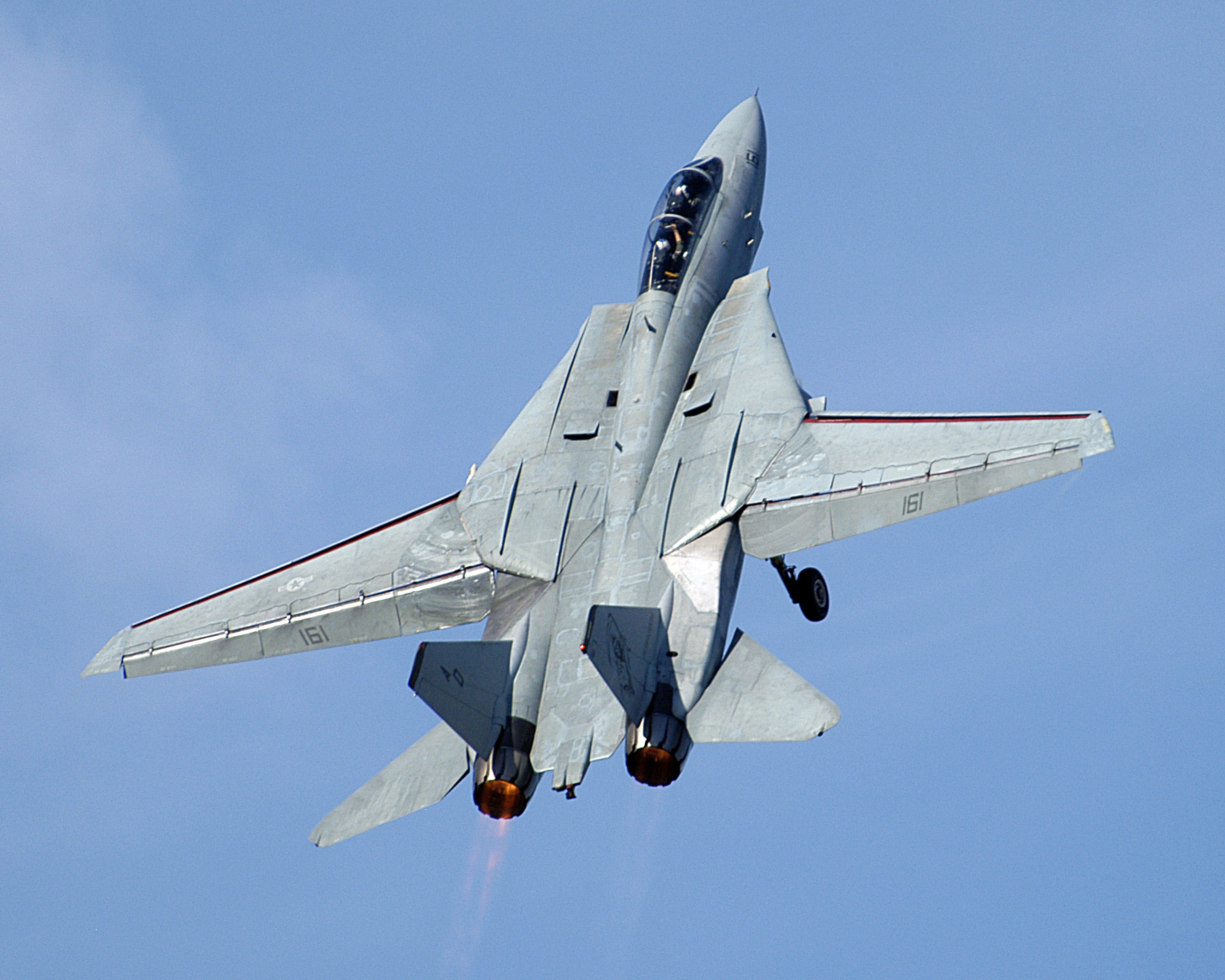 Naval Air Station Oceana, Va. (Sept. 25, 2004) - An F-14D Tomcat assigned to the "Grim Reapers" of Fighter Squadron One Zero One (VF-101), flies an aerial demonstration in front of the crowd at the 2004 "In Pursuit of Liberty," Naval Air Station Oceana Air Show. The air show, held Sept. 24-26, showcased civilian and military aircraft from the Nation's armed forces, which provided many flight demonstrations and static displays. U.S. Navy photo by Photographer's Mate 2nd Class Daniel J. McLain (RELEASED)